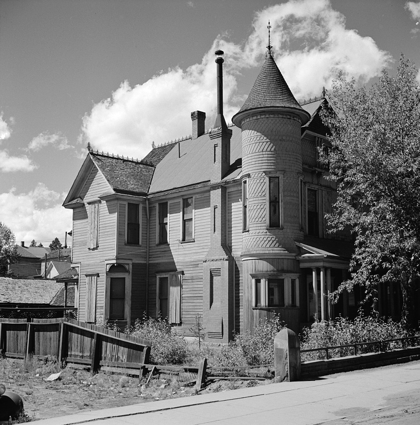 Old Victorian house, Leadville, Colorado, 1930s